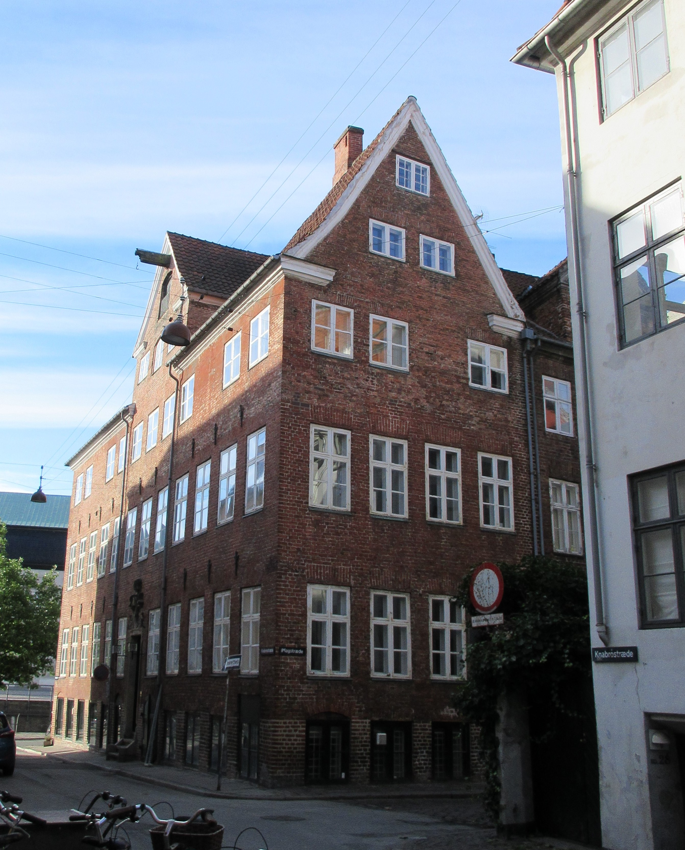 Det Ferske Fiskehandler-Kompagnis Hus at Knarbrostræde 30 in Copenahgen, Denmark